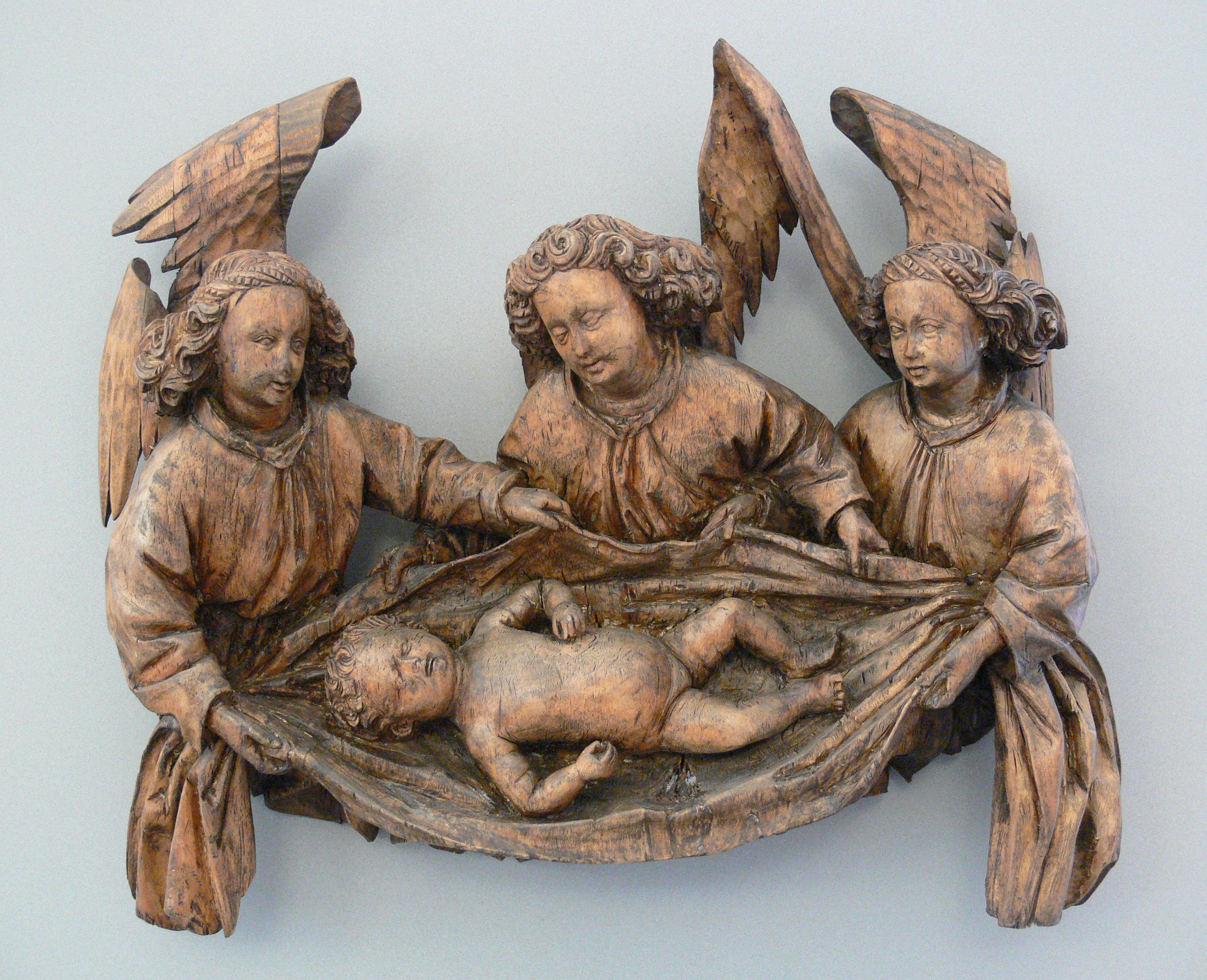 Angels with Infant Christ, Ulm, mid-15th century, limewood?